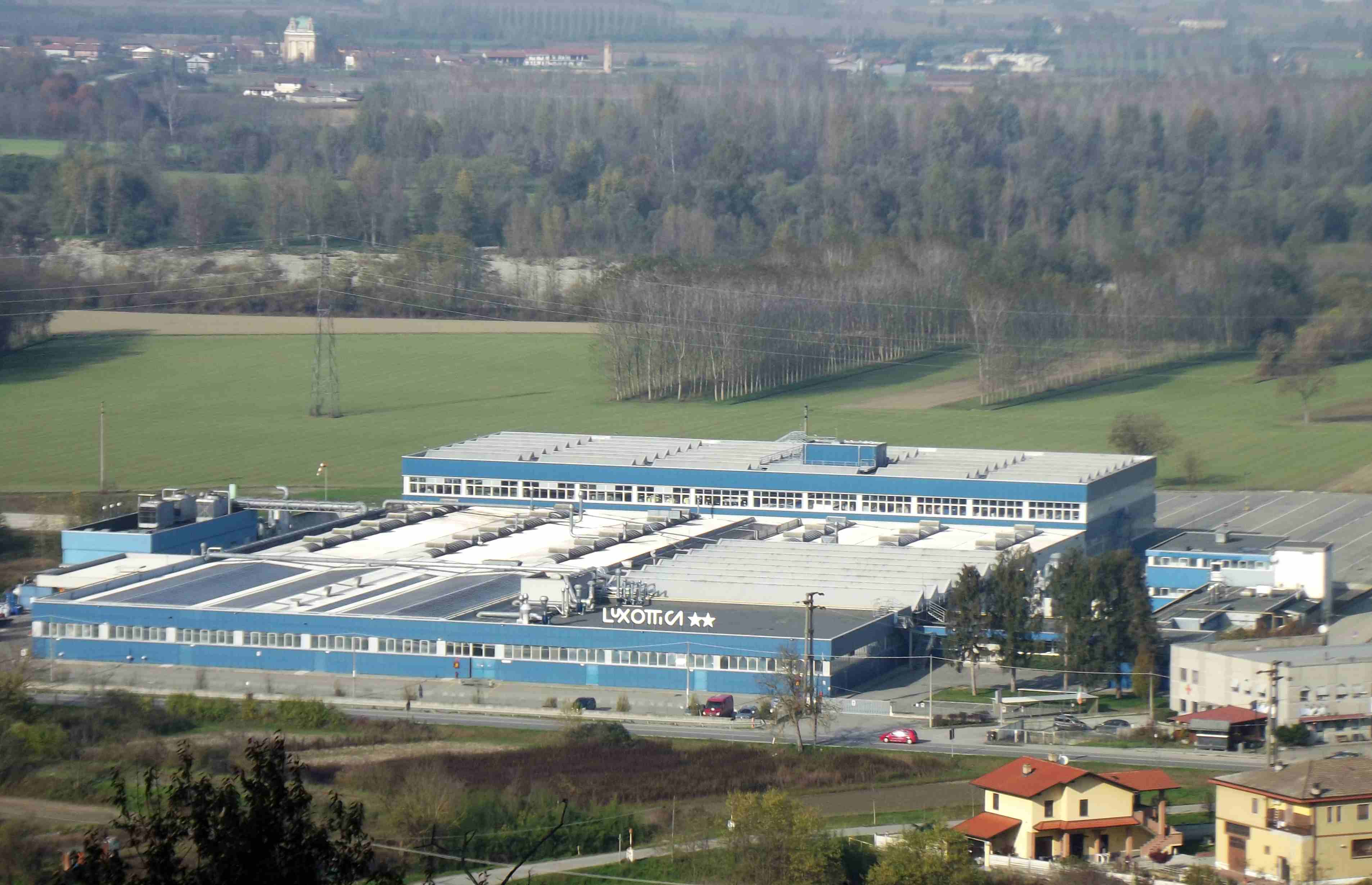 Lauriano (TO, Italy): Luxottica factory